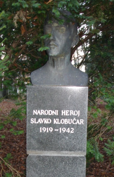 Bust of People's hero of Yugoslavia, Slavko Klobučar, Park of the People's heroes in Delnice.